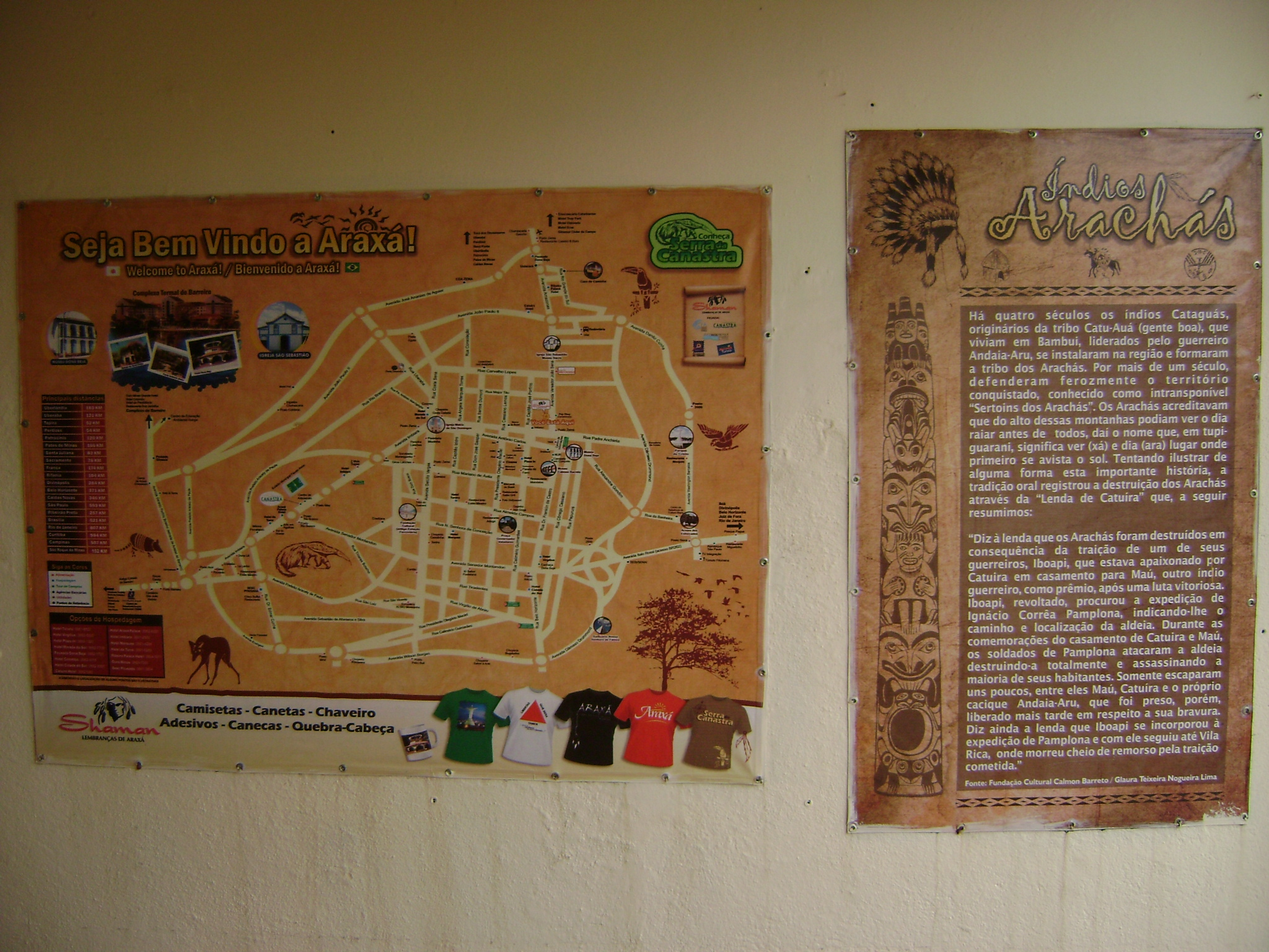 Cartazes turísticos na portaria de uma loja de roupas com estampas turísticas, em Araxá, Minas Gerais, Brasil.